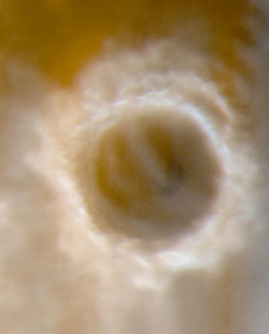 The Martian crater Lomonosov in winter as seen by Mars Global Surveyor. Original Caption Released with Image: It is still winter in the northern hemisphere of Mars. On April 20, 2000, the Mars Orbiter Camera (MOC) onboard Mars Global Surveyor (MGS) captured this view of a chilly Lomonosov Crater. The rims of the crater appear white because they are covered with wintertime frost. A dark patch just right of center on the crater floor is a sand dune field. Both low-lying ground fogs(fuzzy, patchy areas around the lower perimeter of the crater) and higher cloud layers (fuzzy white arcs seen within the crater and towards the upper right) obscure much of the surface. The sun, only 12° above the horizon, bathes the scene in a reddish-brown hue. Lomonosov Crater is about 150 km (93 mi) across and located on the martian northern plains at 64.8° N, 8.8° W. The crater is named for the 18th Century Russian chemist, Mikhail V. Lomonosov (1741-1765). Spring will arrive in the martian northern hemisphere around June 1, 2000, and summer will come in December 2000. Sunlight illuminates this scene from the lower left.